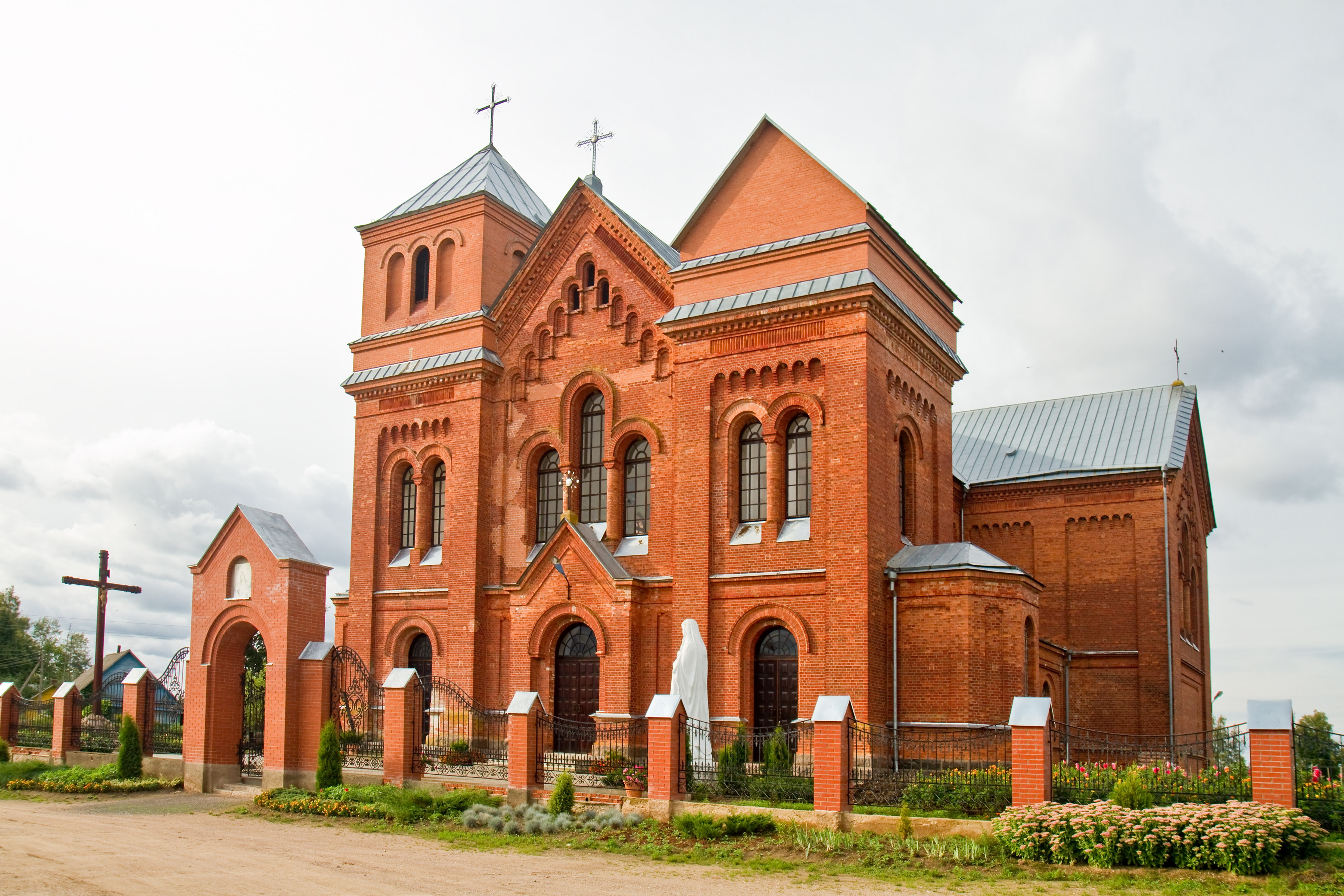 Catholic church of the Holy Trinity in Rosica. Vierchniadźvinsk district, Viciebsk province, Belarus.